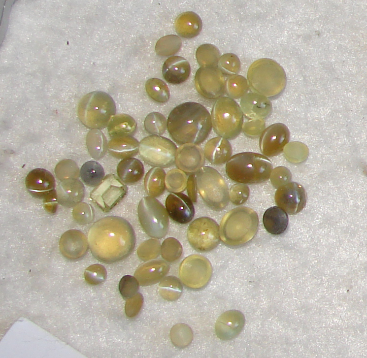 A collection of Chrysoberyl cabochons from Minas Gerais, Brazil. Gem cutting by Afonso Marques.